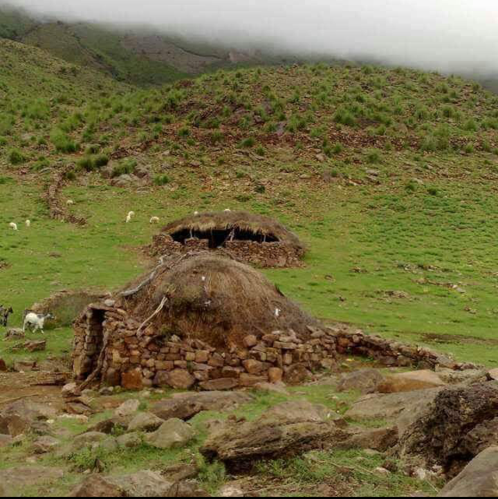 Burg pusht Village — rock shelters This is a photo of a monument in Pakistan identified as the BA-U-31